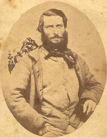 Photograph of Frederick Charles Porter. Castlemaine, Victoria, Australia